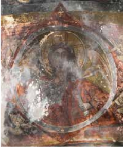 Christ Angel of the Great Counsel, Kërçisht e Sipërmë, Church of the Ascension, eastern part of the vault I half of the XVI Century